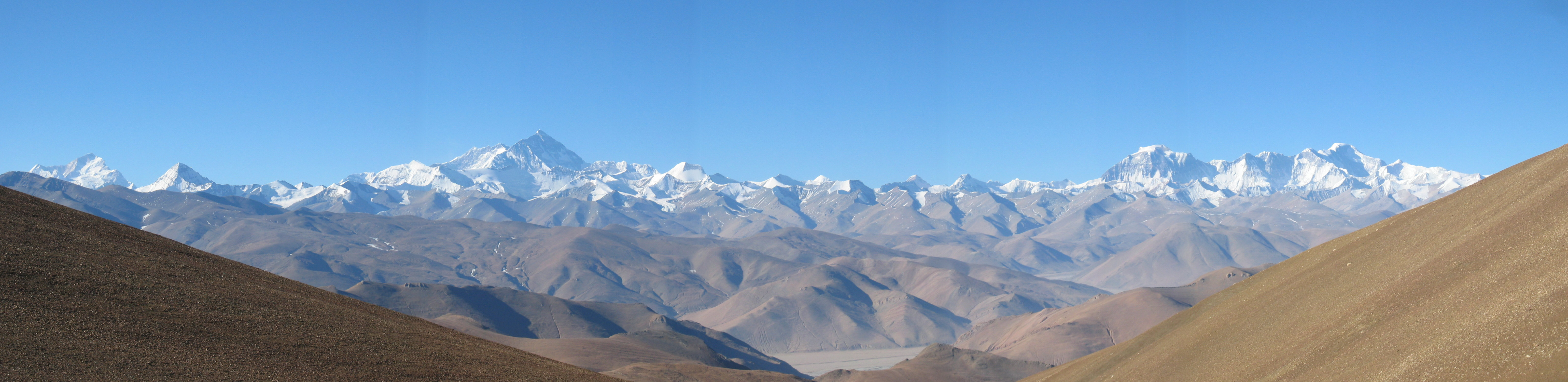 Panoramic view of Mount Everest or Chomolungma from the north inside Tibet.